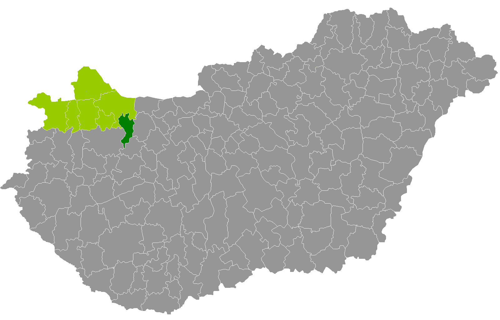 Location of Pannonhalma District, Győr-Moson-Sopron, Hungary